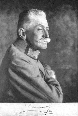 Franz Graf Conrad von Hötzendorf (Hoetzendorf), Chief of the General Staff of the Austro-Hungarian Army in World War I.